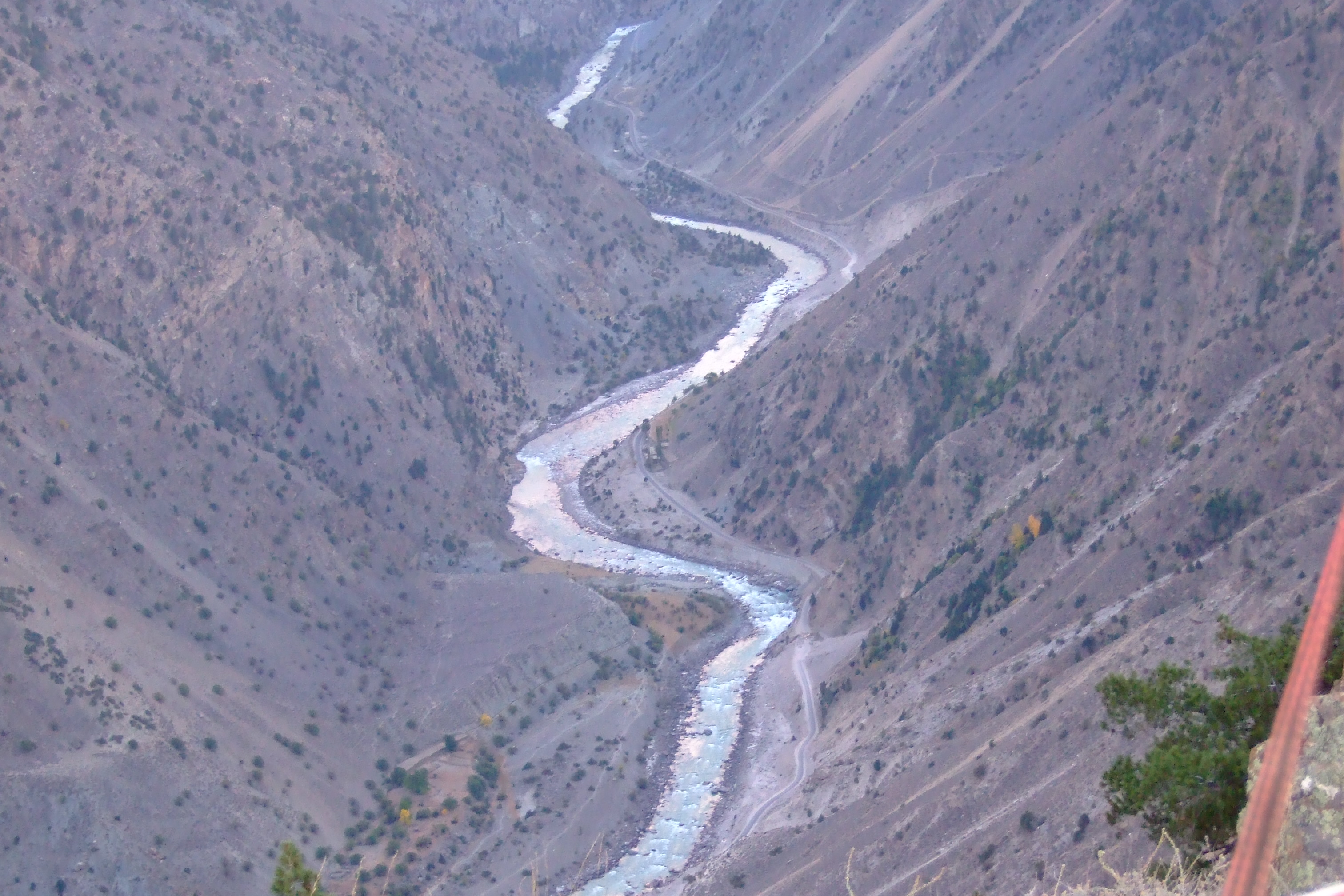 Hurcho is the village in district Astore Gilgit-Baltistan Pakistan.